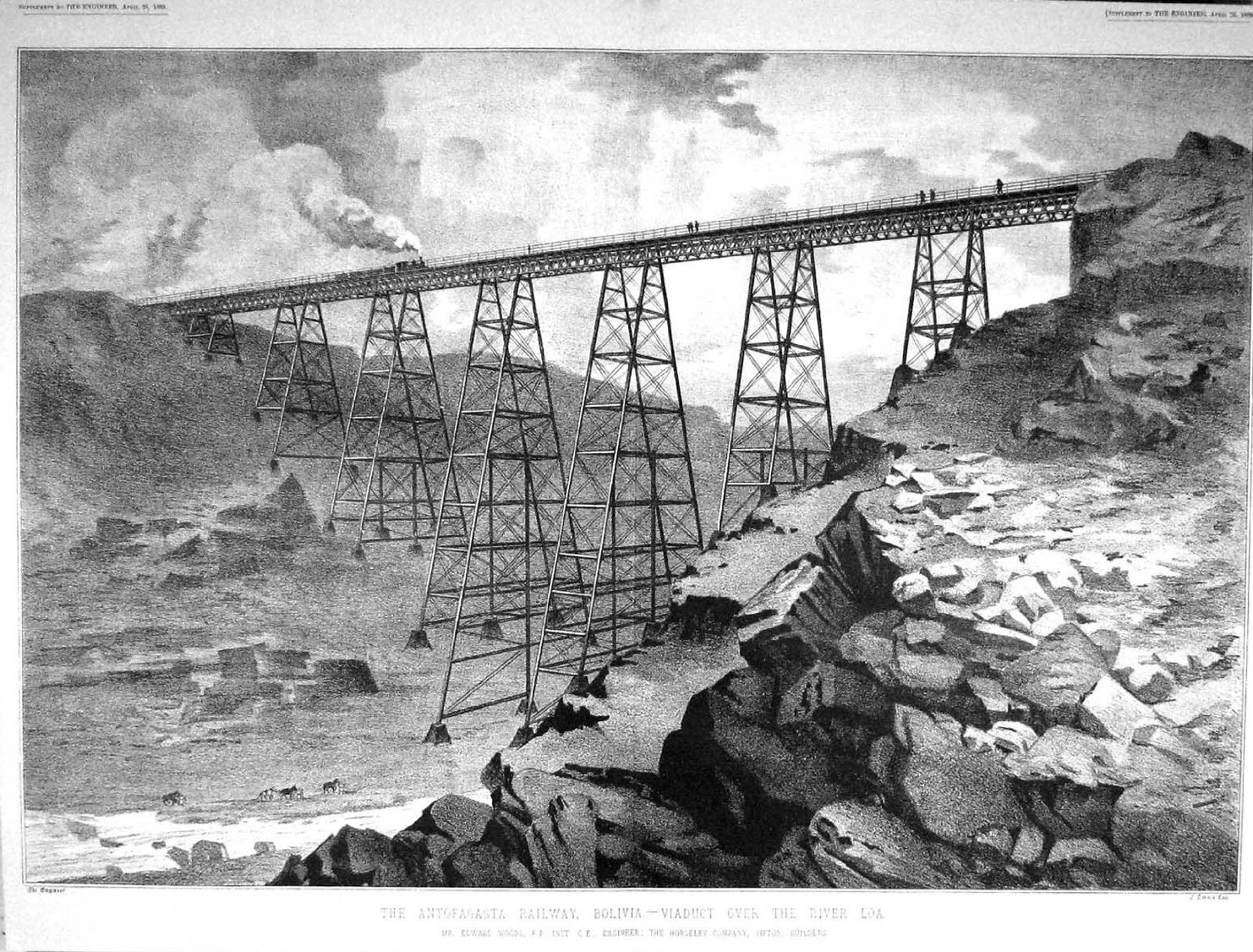 The Antofagasta Railwa Bolivia — Viaduct over the River Loa